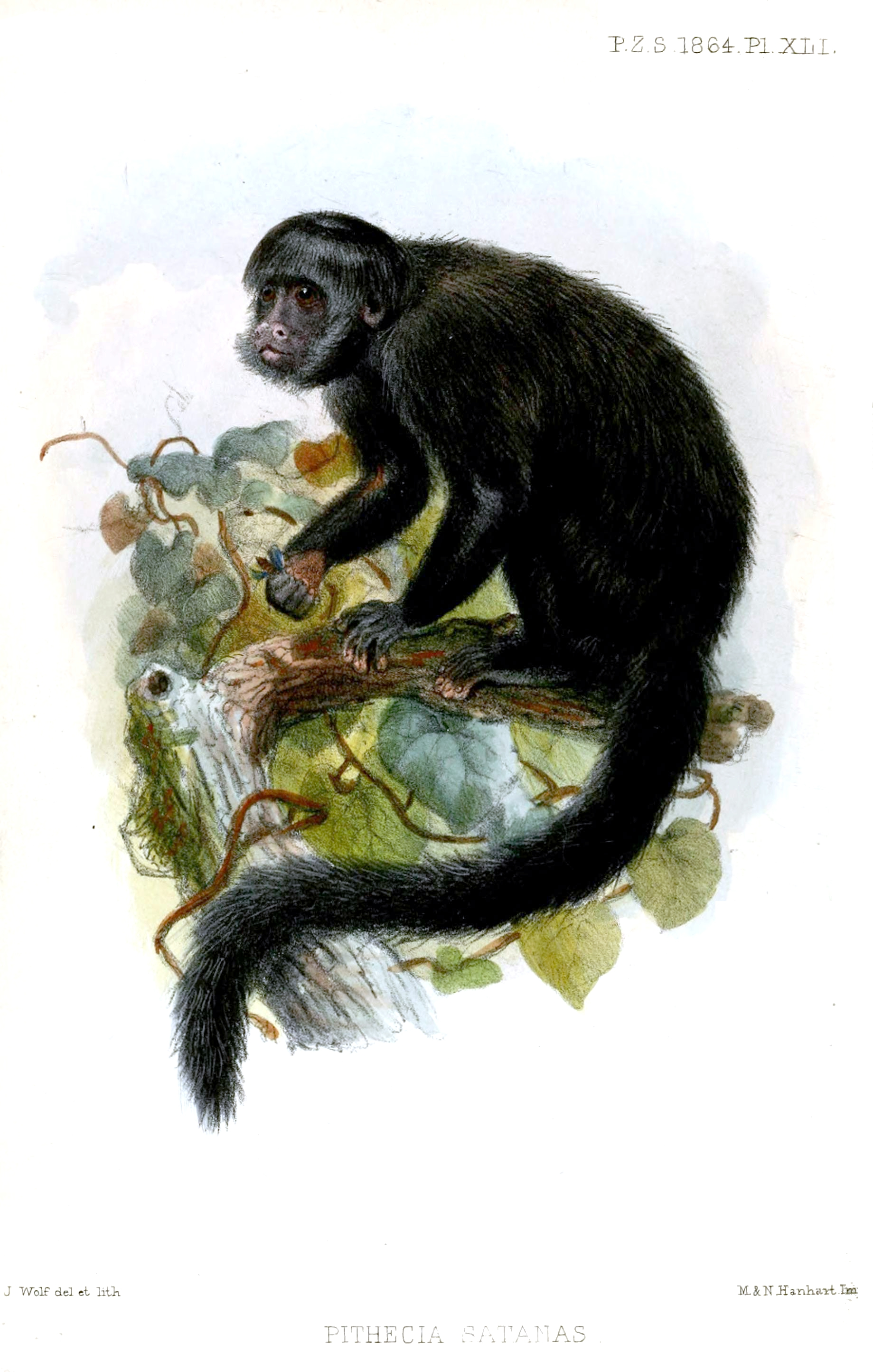 Pithecia satanas = Chiropotes satanas